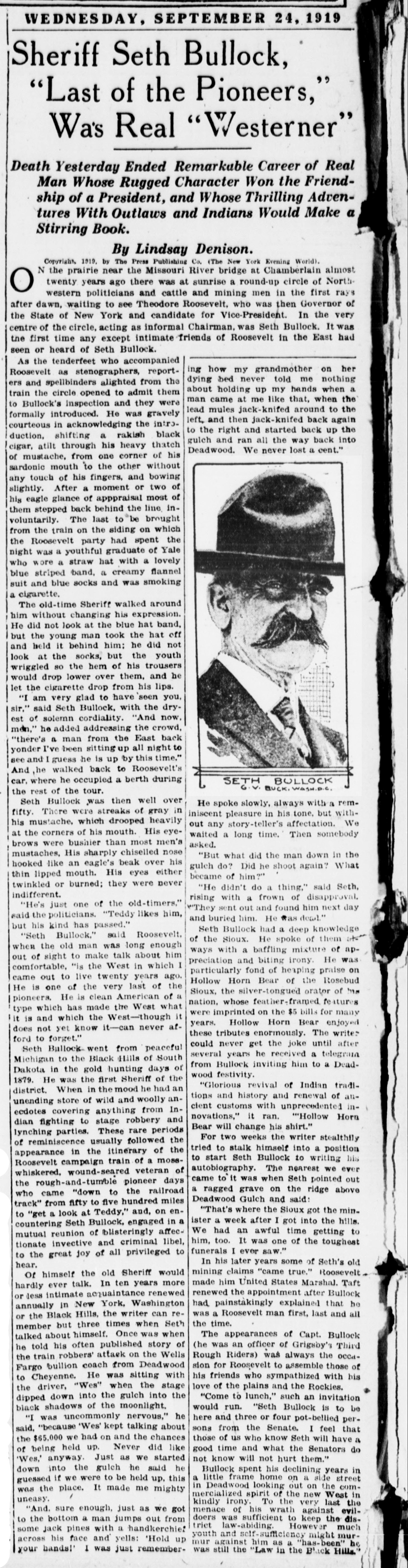 Obituary of Seth Bullock